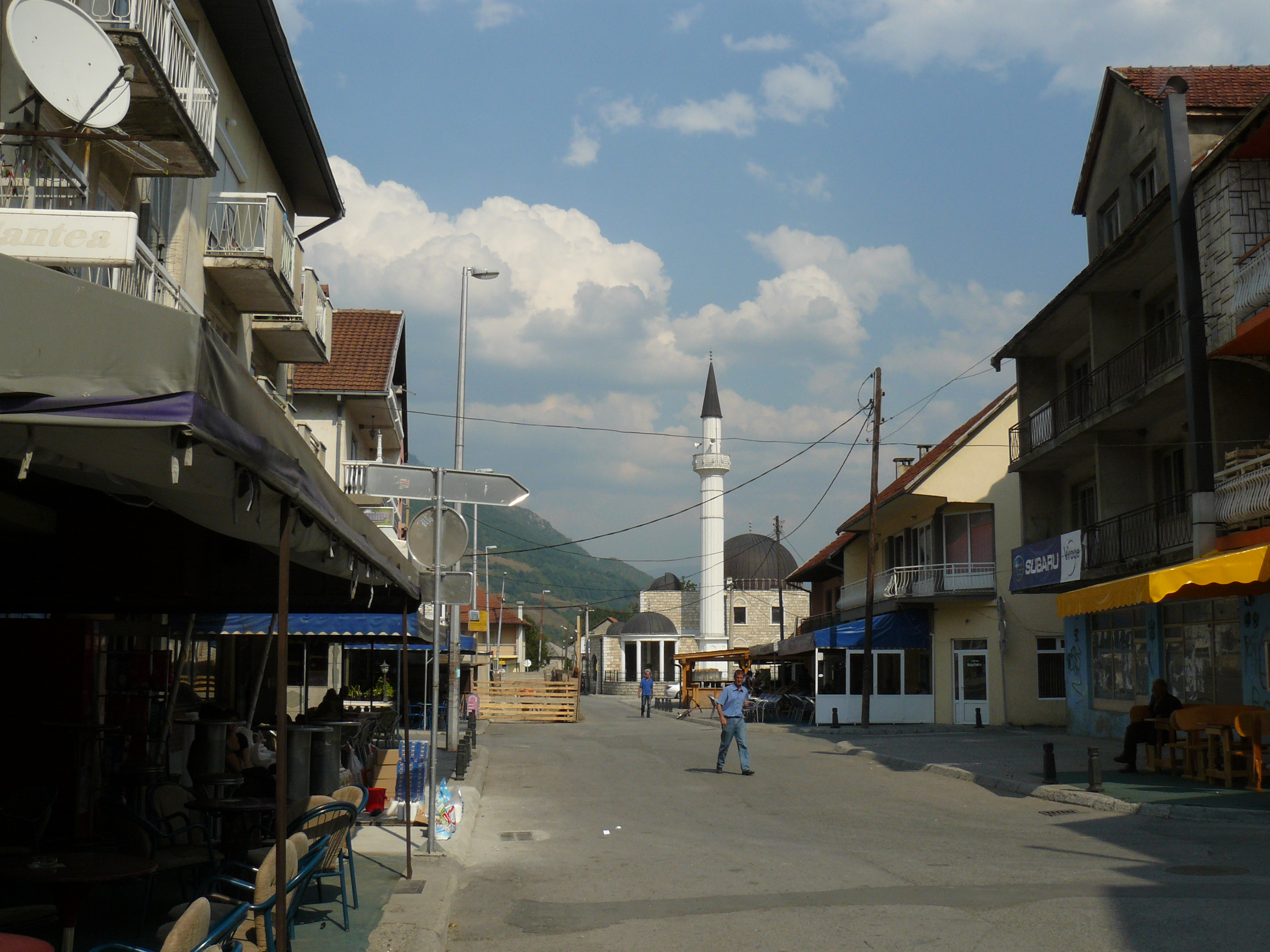 Gusinje - centre of the town